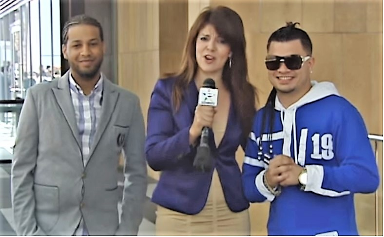 The Urban Duo: Jowell and Randy and their big radio hit "Cuando Cuando Es". Puerto Rican reggaeton duo Jowell & Randy interviewed by journalist Dulce Osuna. Left to right: Randy Ortiz, Dulce Osuna, Joel Muñoz.